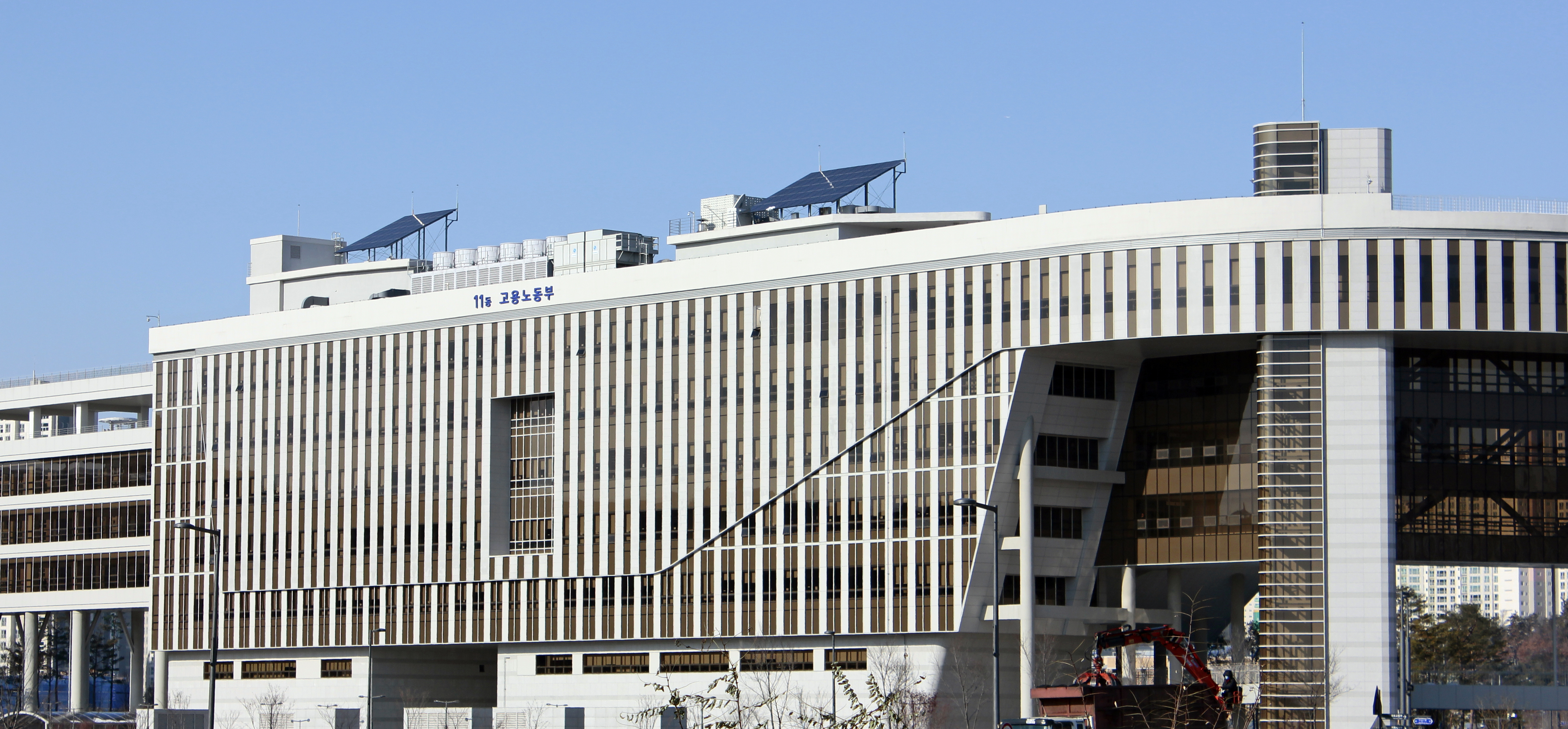 Ministry of Employment & Labor @Government Complex Sejong #11